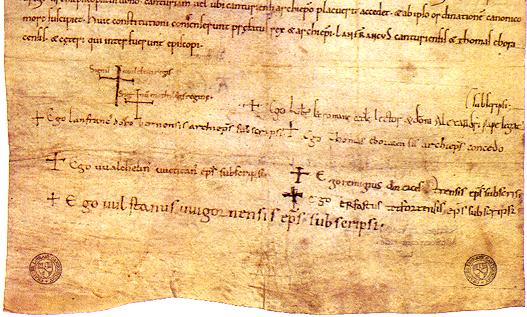 Accord of Winchester signed 1072 by William the Conqueror & his wife. This elevated Canterbury over York as to whose archbishop would be the highest primate in England. The large Xs are the 'signatures' of William & Matilda, the one under theirs is Lanfranc's, and the other bishops' are under his.